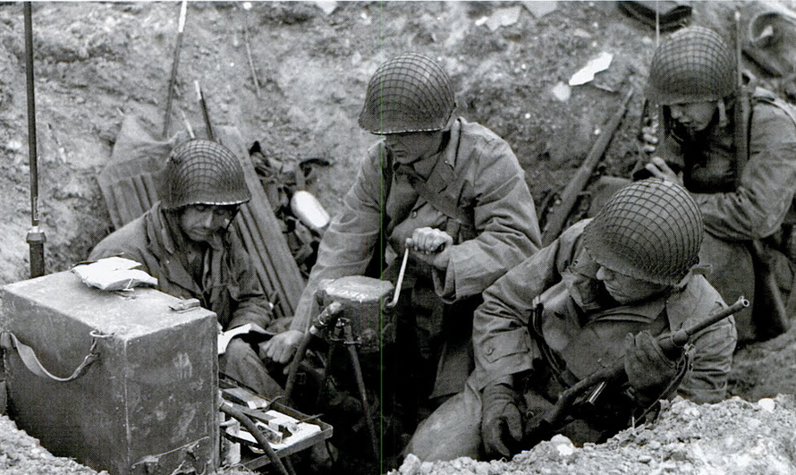 From: "United States Army in World War II, Pictorial Record, War Against Germany: Europe and Adjacent Areas"